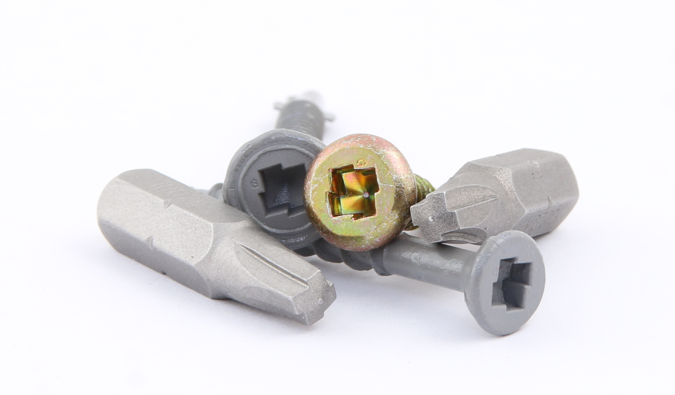 LOX type screws and bits. Made by Grabber company.